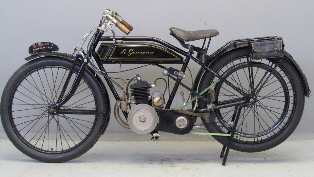 Le Grimpeur Motorcycle 175 cc two stroke from 1925